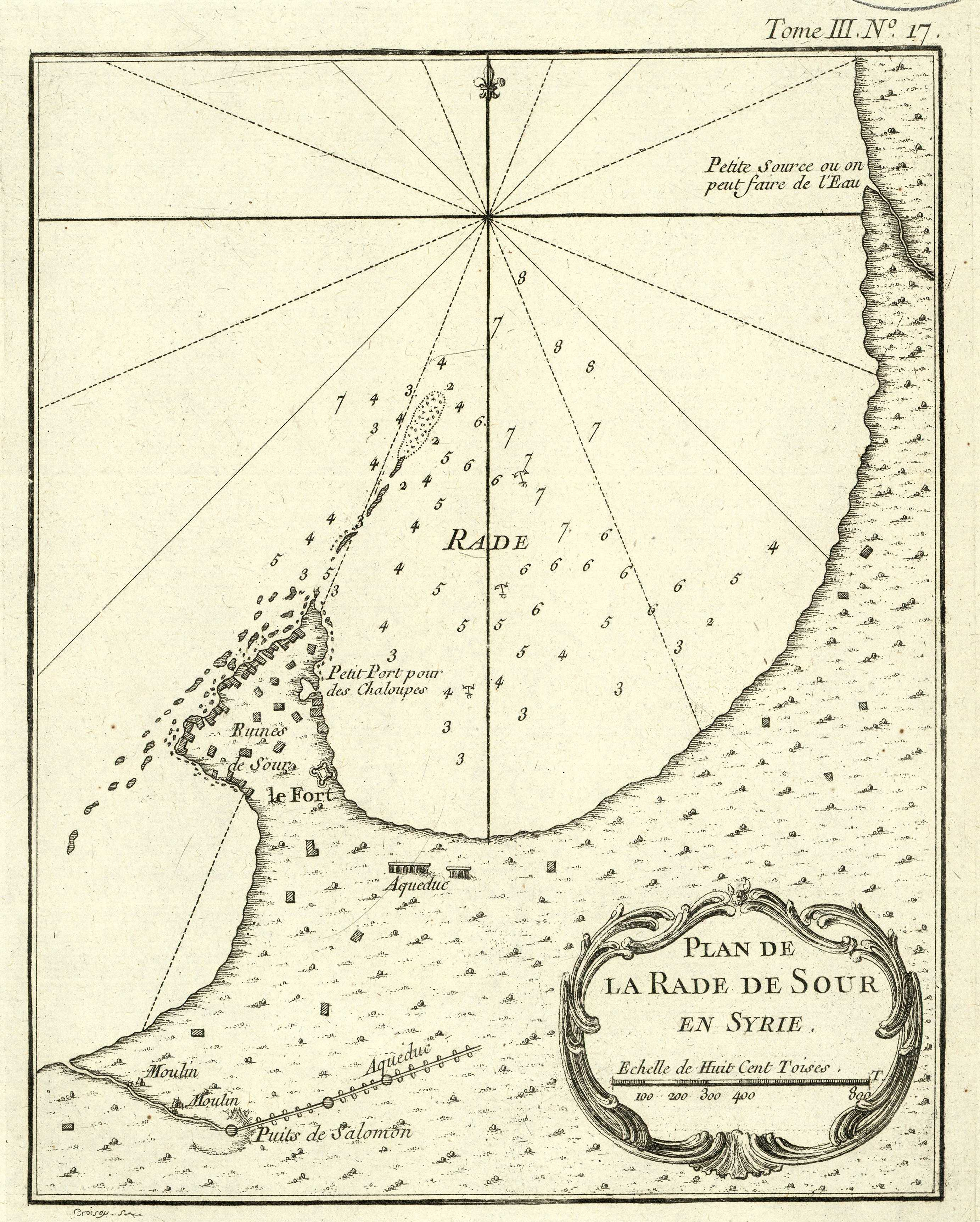 Map of the peninsula of Tyre/Sour in what is now Southern Lebanon, published in 1764 in Paris, drawn by French hydrographer and geographer Jacques Nicolas BELLIN